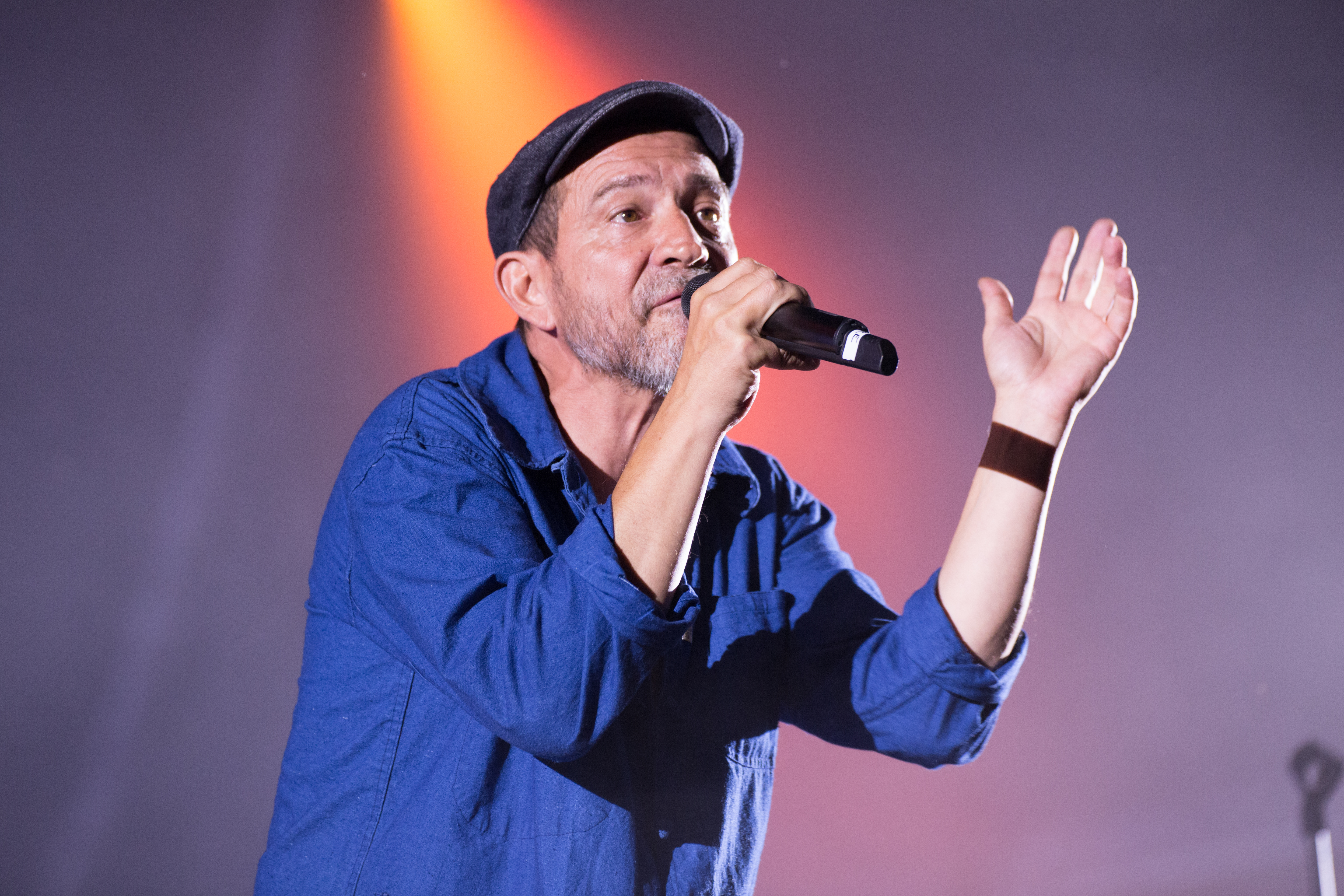 Massilia Sound System (France) at Rio Loco 2015